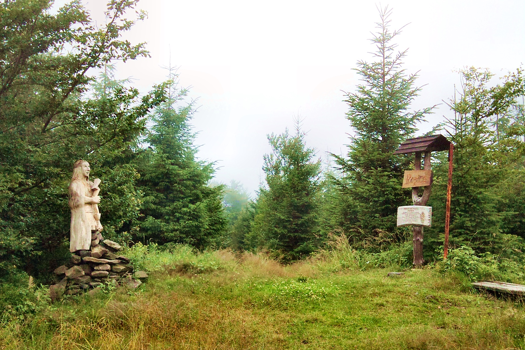 Summit of Ropice with a woodden statue of Perun.